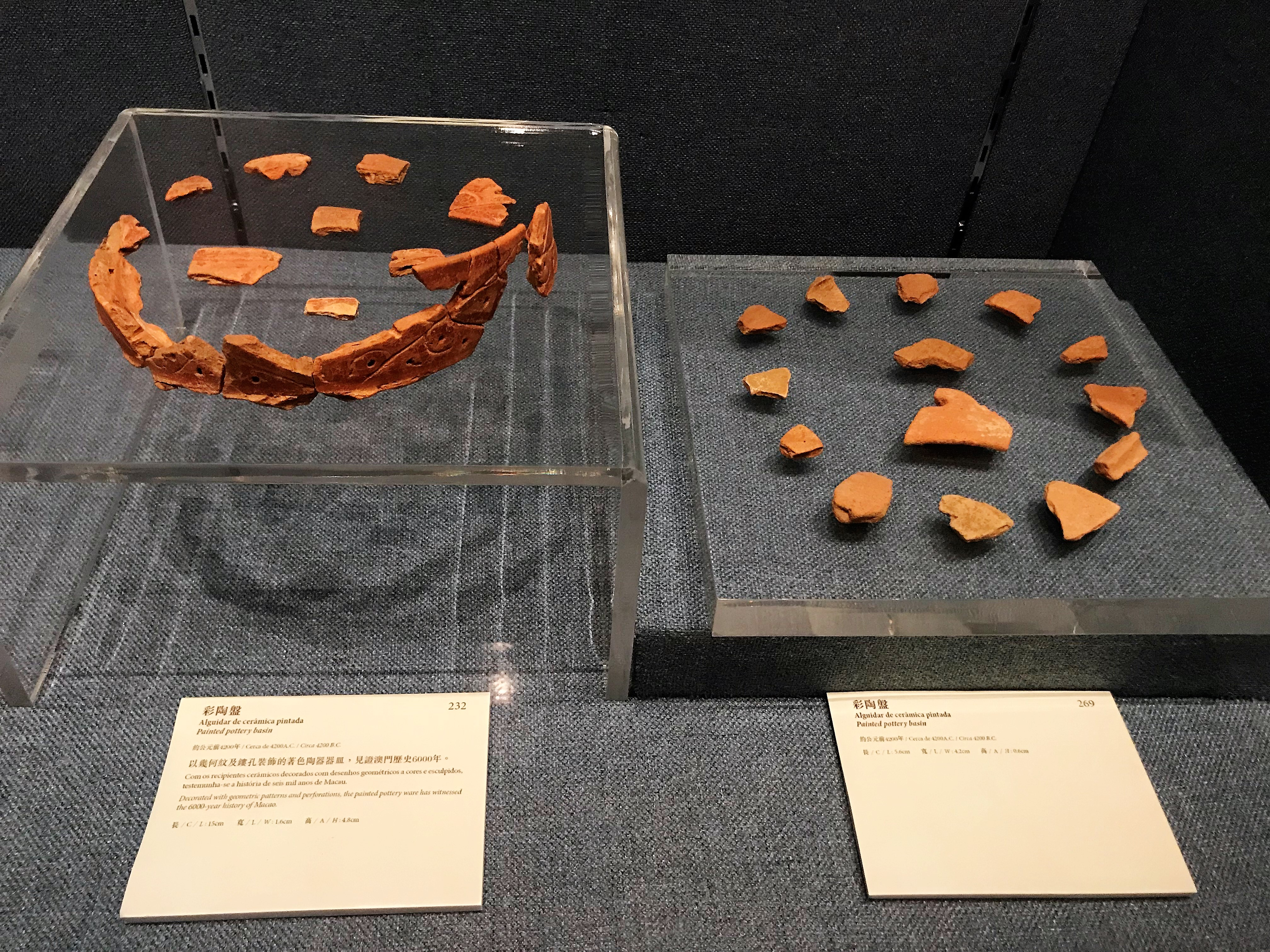 Painted pottery shards from prehistoric age Macao.